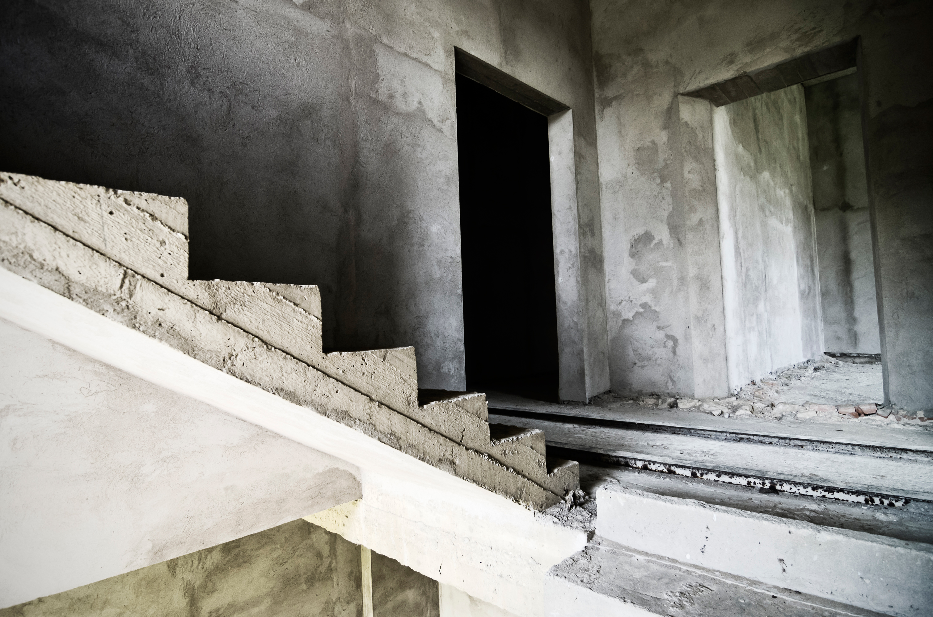 Inside the Norra Manor house